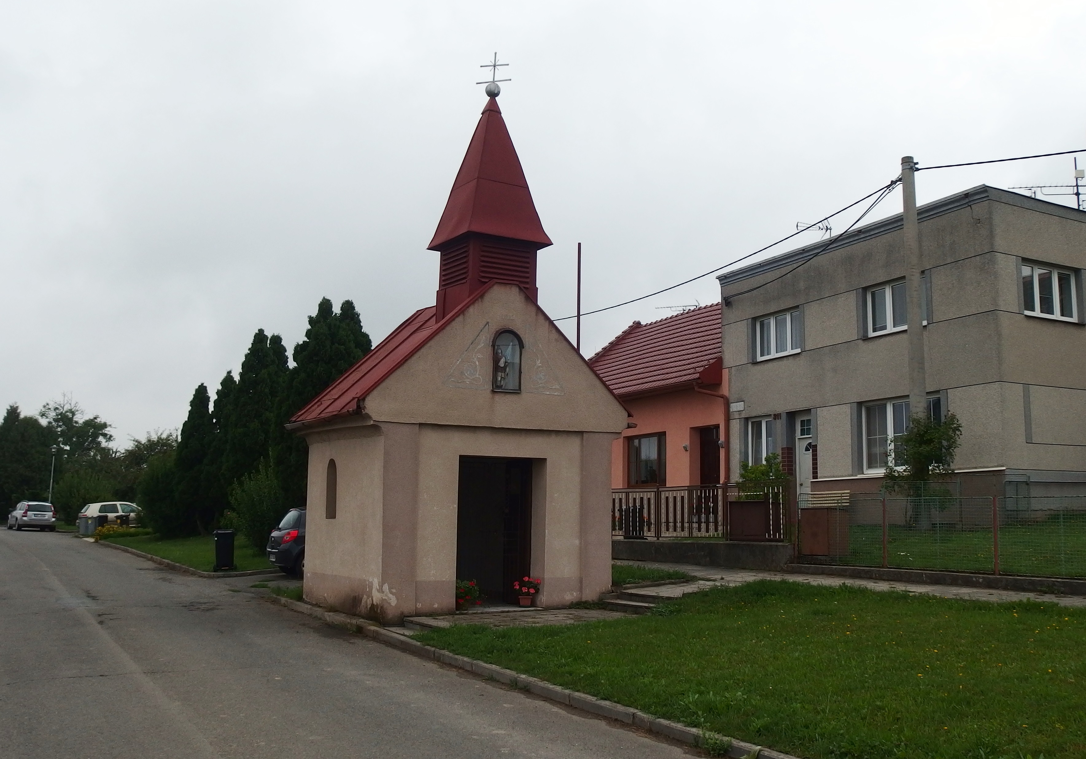 Kostelec u Holešova, Kroměříž District, Czech Republic, part Karlovice.